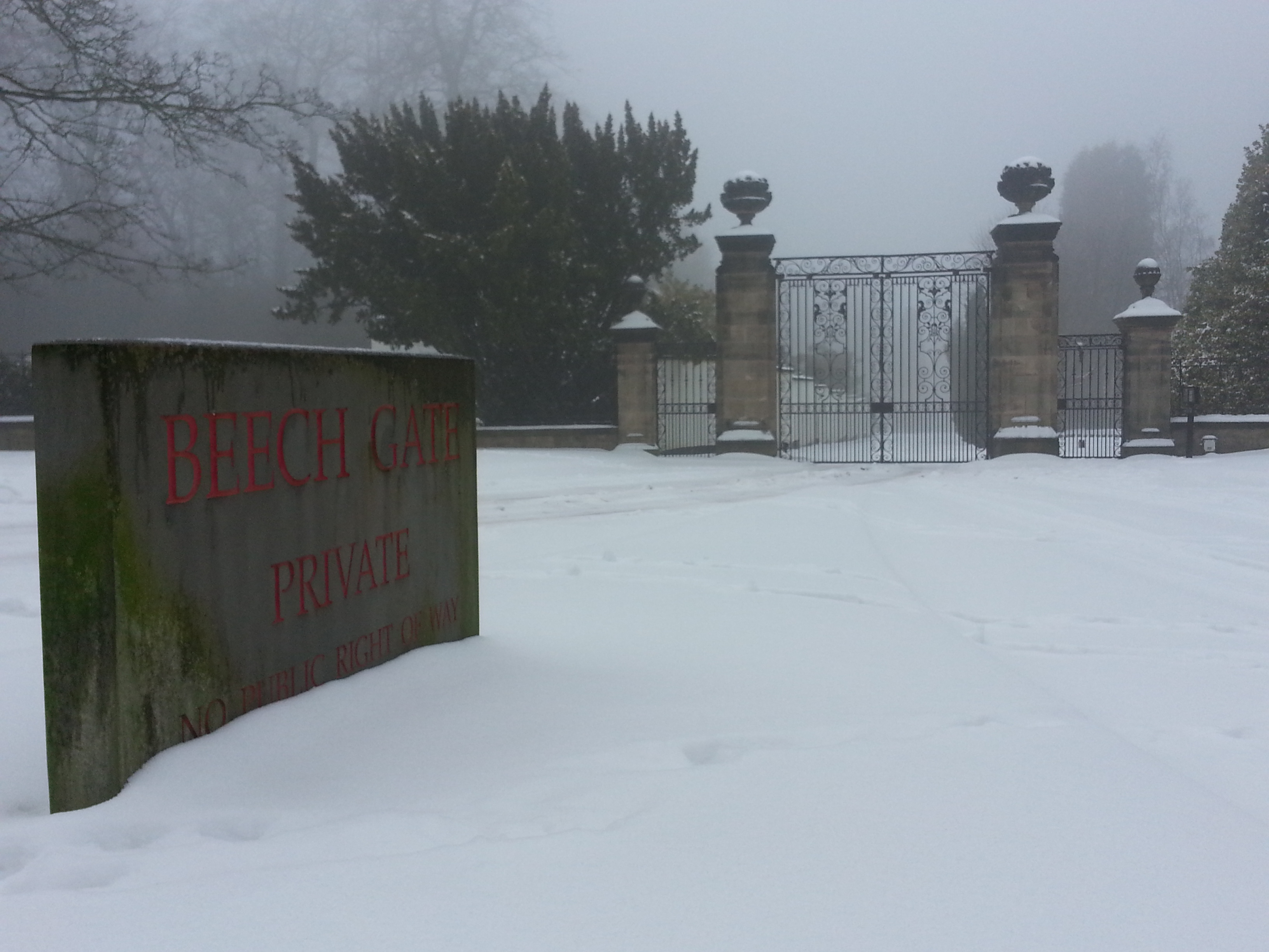 Grade II listed Gate Piers With Attached Wall, Railings And Gates At Historical Main Entrance To Little Aston Hall, now used as an automated electric gate entrance to Beech Gate - a private residential road with no public right of way - in Little Aston Park